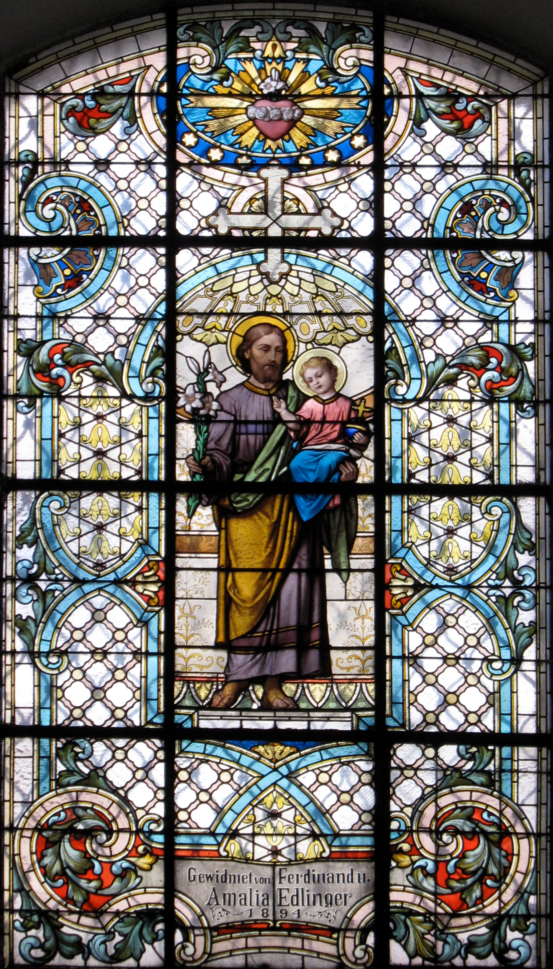 "St. Joseph with child", dedicated by Ferdinand and Amalia Edlinger in 1894. Church of Mariahilf, Vienna. Windows by Carl Geyling’s Erben.